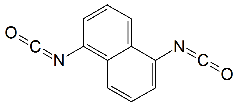 1,5-naphthalene diisocyanate